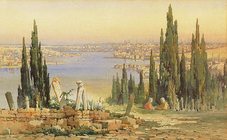 O Keratios Kolpos. Konstantinoupolis, watercolor painting by Angelos Giallinas.